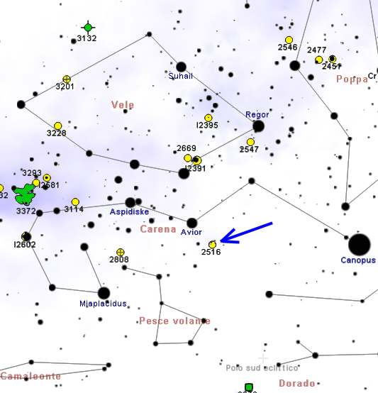 NGC 2516